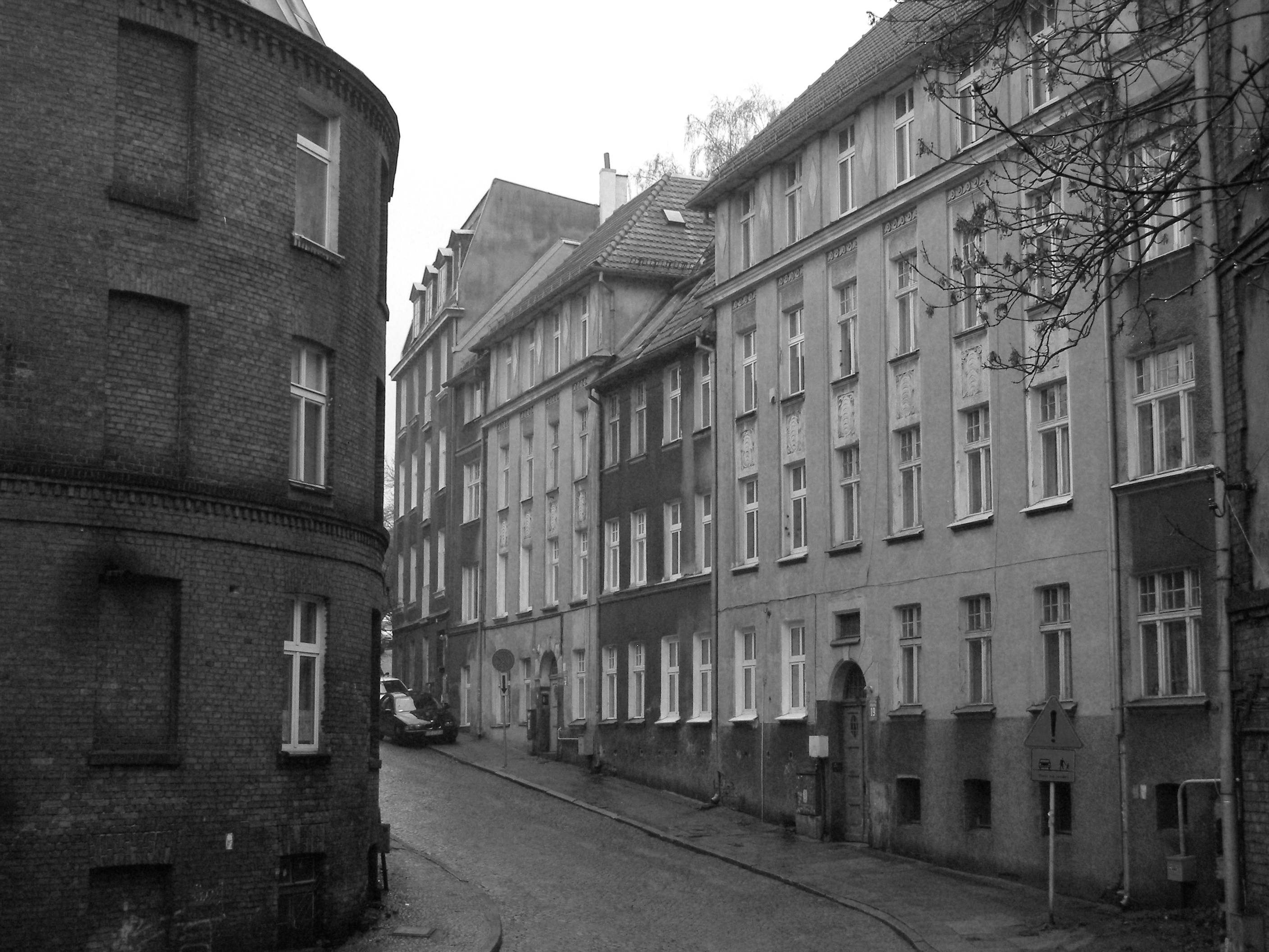 Gdańsk - Biskupia str.